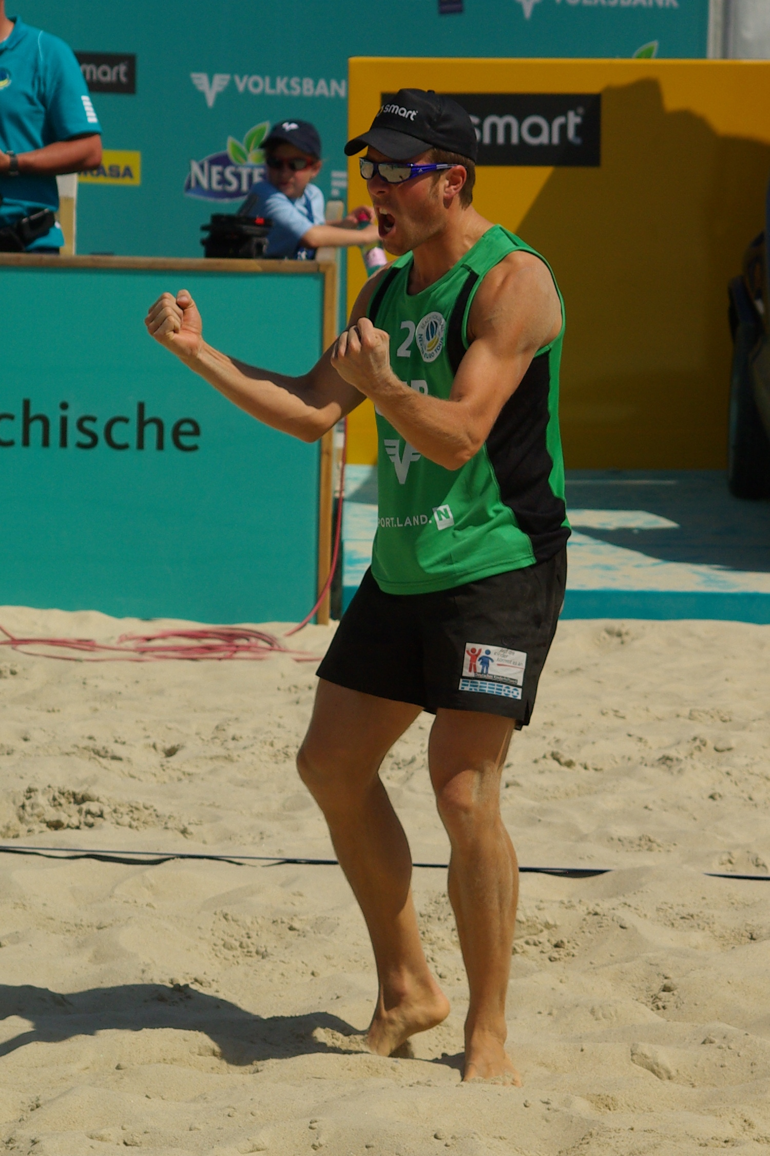 German Beach volleyball player David Klemperer at the European Championship Tour 2008 Austrian Masters in St. Pölten.